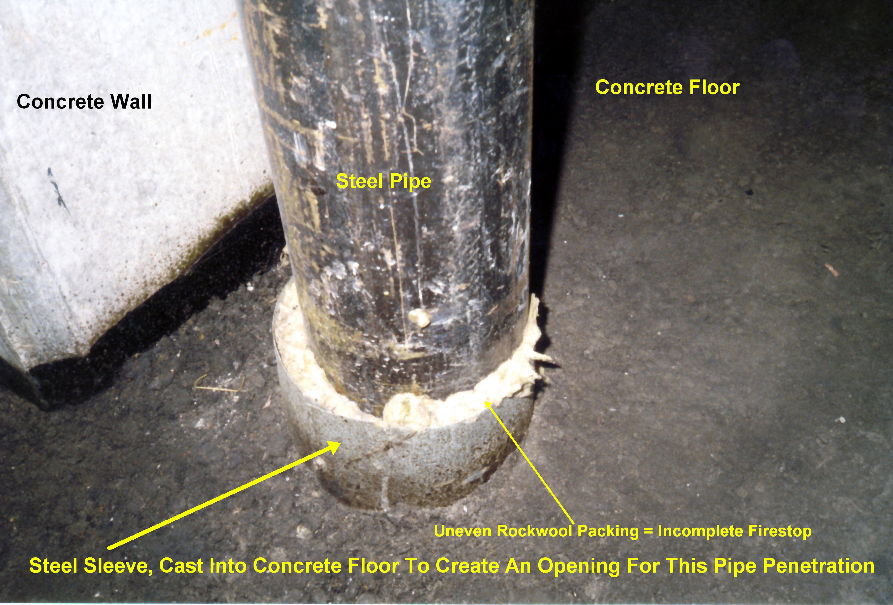 Steel Sleeve in concrete floor to create an opening for a pipe penetration. Uneven Packing = incomplete firestop.